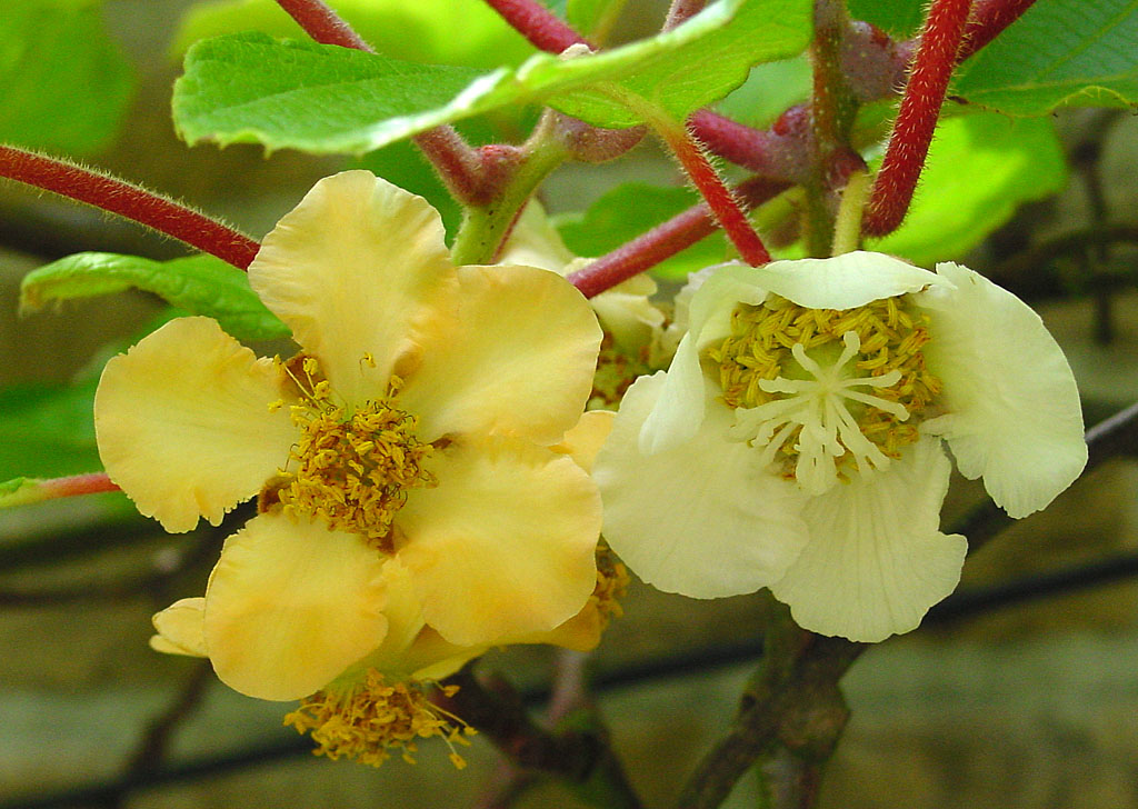 kiwifruit